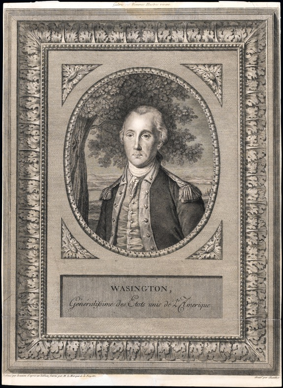 Engraving of George Washington by Juste Chevillet after a drawing by Michel Bounieu after a painting by Charles Wilson Peale